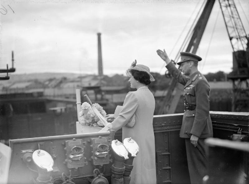 The Royal Navy during the Second World War HM King George VI waves good-bye to the cheering crowds from the bridge of HMS BICESTER as the Queen stands next to him. Their Majesties returned to England on this destroyer after their visit to the naval base at Larne, Northern Ireland.